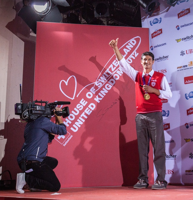 Steve Guerdat at the House of Switzerland celebrating his gold medal at the Olympic Games 2012 in London